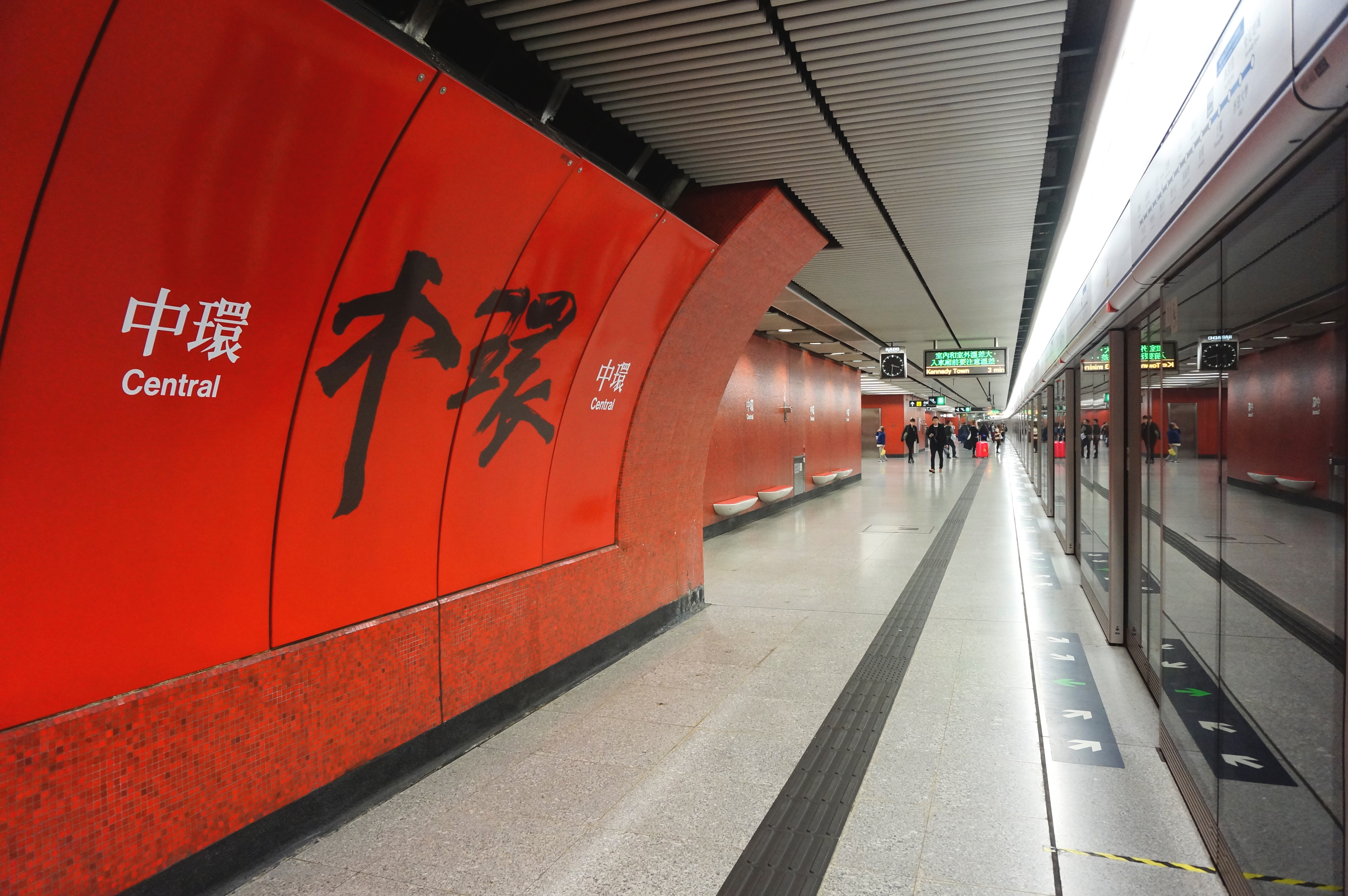 MTR Central station Platform 4